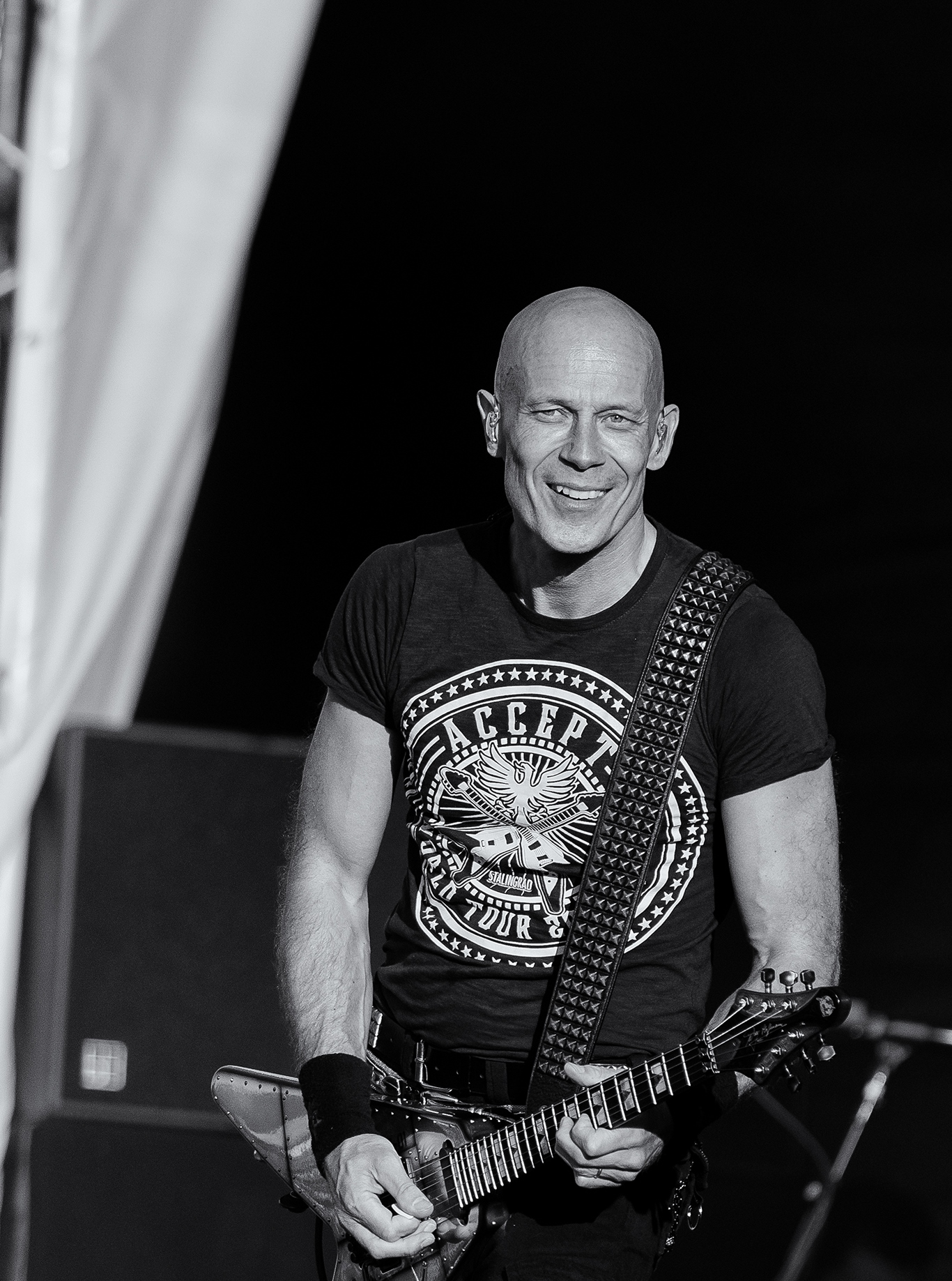 Wolf Hoffmann in Accept playing at Sweden Rock Festival 2013